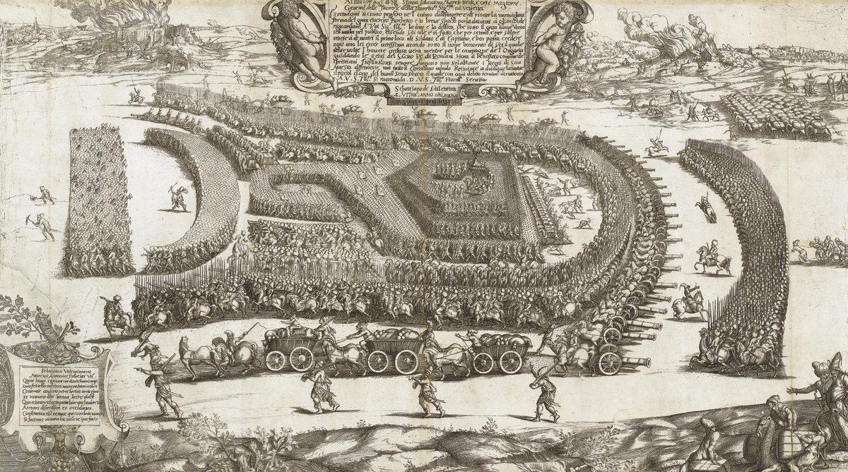 The Order of Battle of the Ottoman Army, 1558